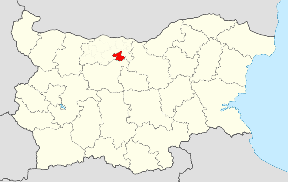 Location map of Pordim Municipality within Pleven Province, Bulgaria. Equirectangular projection, N/S stretching 130 %. Geographic limits of the map: N: 44.4° N S: 41.1° N W: 22.1° E E: 28.9° E